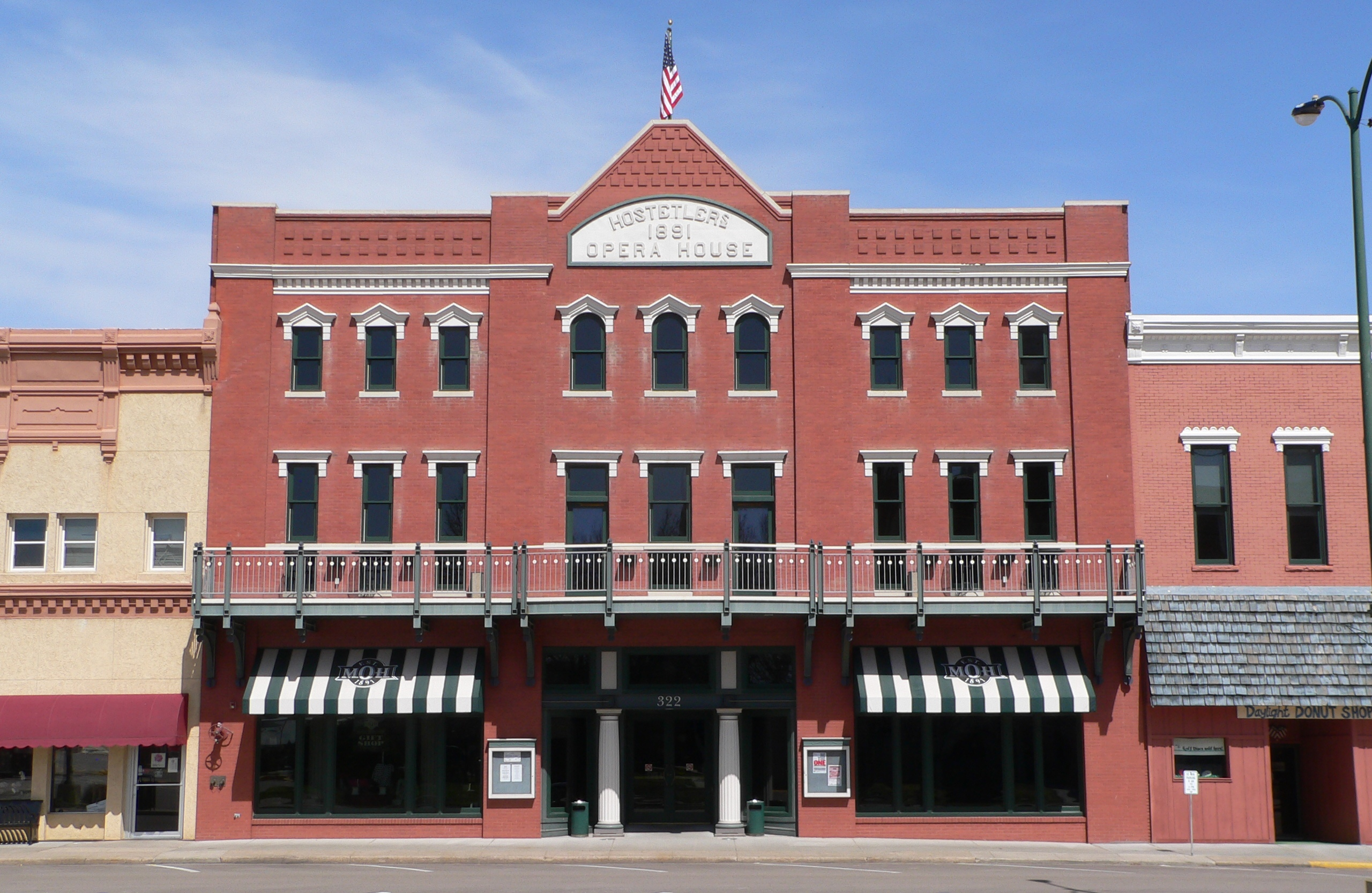 W.T. Thorne Building, a.k.a. Hostetler's Opera House, on the north side of 5th Street between Colorado and Minden Streets in Minden, Nebraska. The Renaissance Revival building was constructed in 1891; it is listed in the National Register of Historic Places.